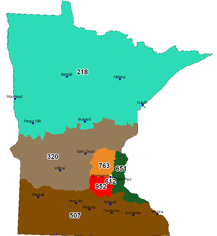 All area codes within the state of Minnesota.